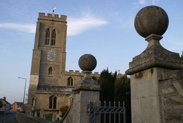 Market Deeping Church This stands right at the side of the old A15 main road, much quieter now the by-pass is in place